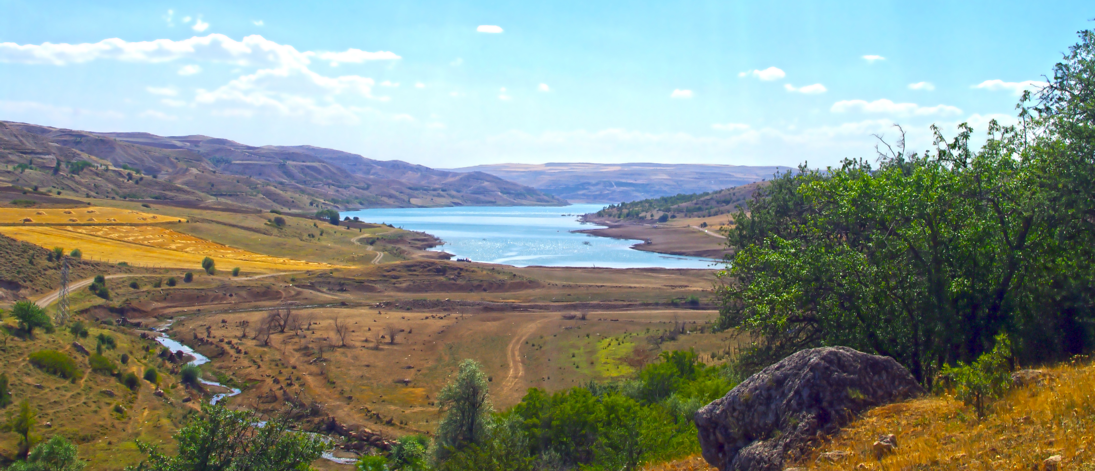 View of 4 Eylül Dam located on downstream of Cold Spring in Sivas, Turkey.